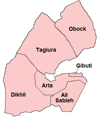 Translated from the english work on commons